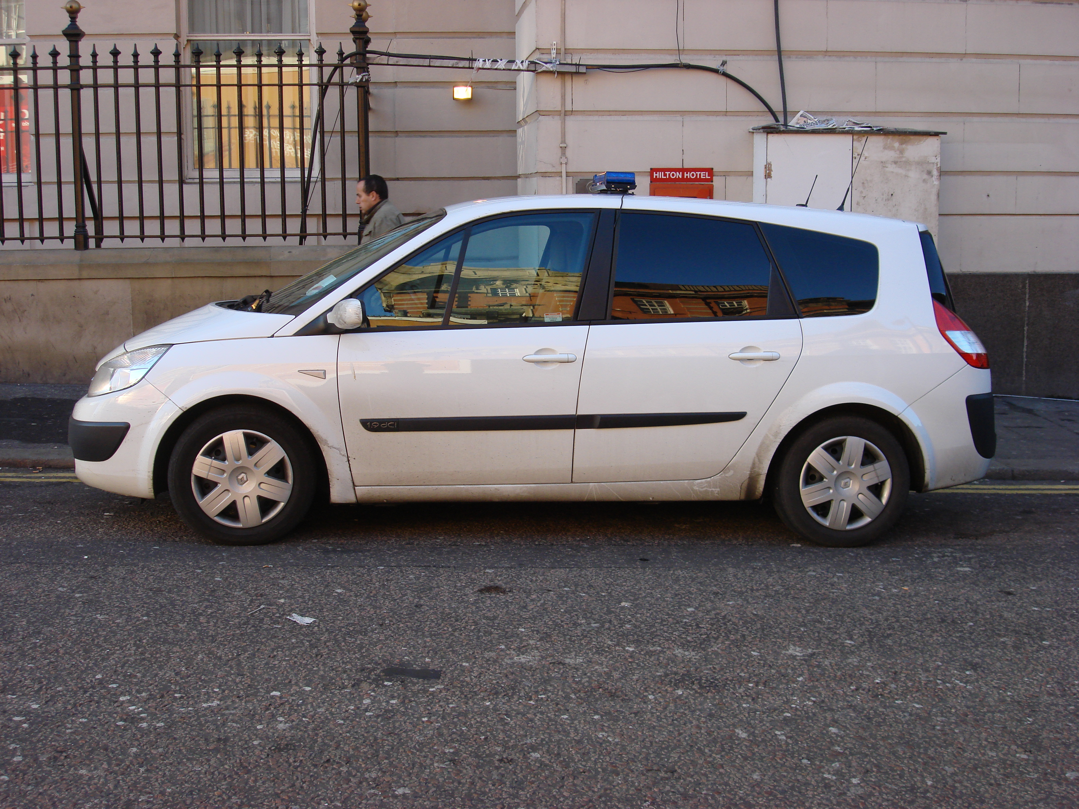 Unmarked Police Renault Scénic II outside Paddington Railway Station, London, UK